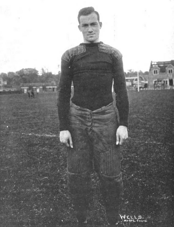 Photograph of Stanfield Wells, '11, Right Half, Brewster, Ohio